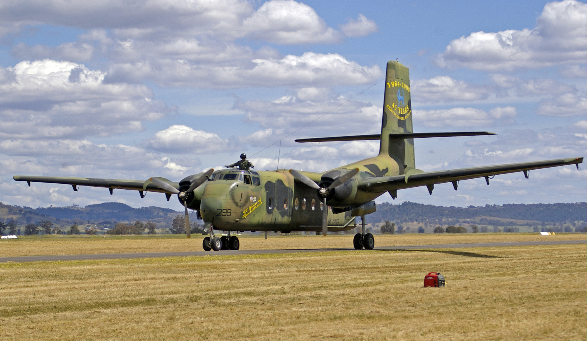 Royal Australian Air Force DHC-4 Caribou (A4-299)